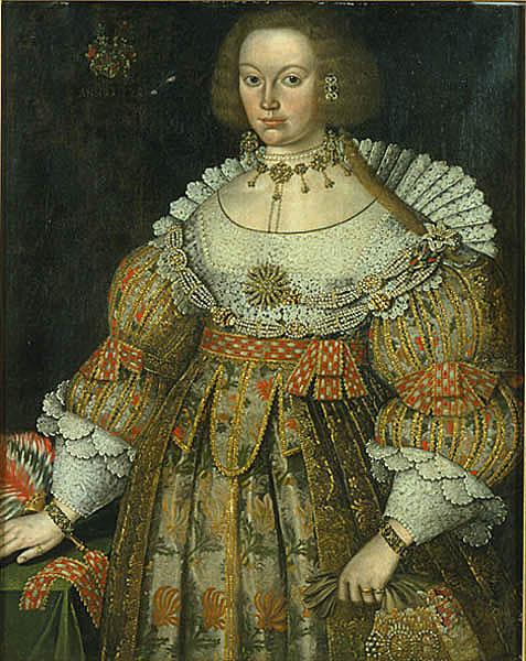 Beata Gyllenstierna (née von Yxkull; 1618-1667)